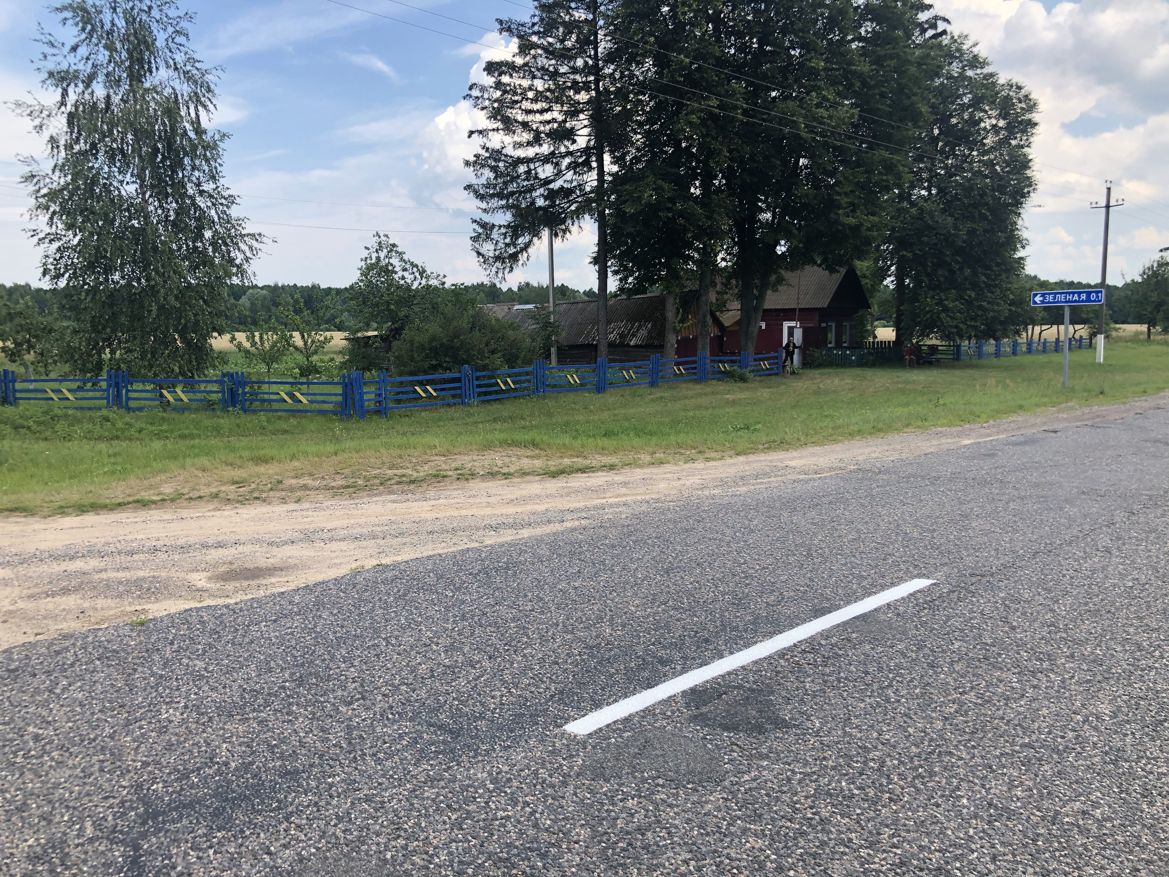 Zelenaya 2, Buda-Kashelevskiy Region 2020 july